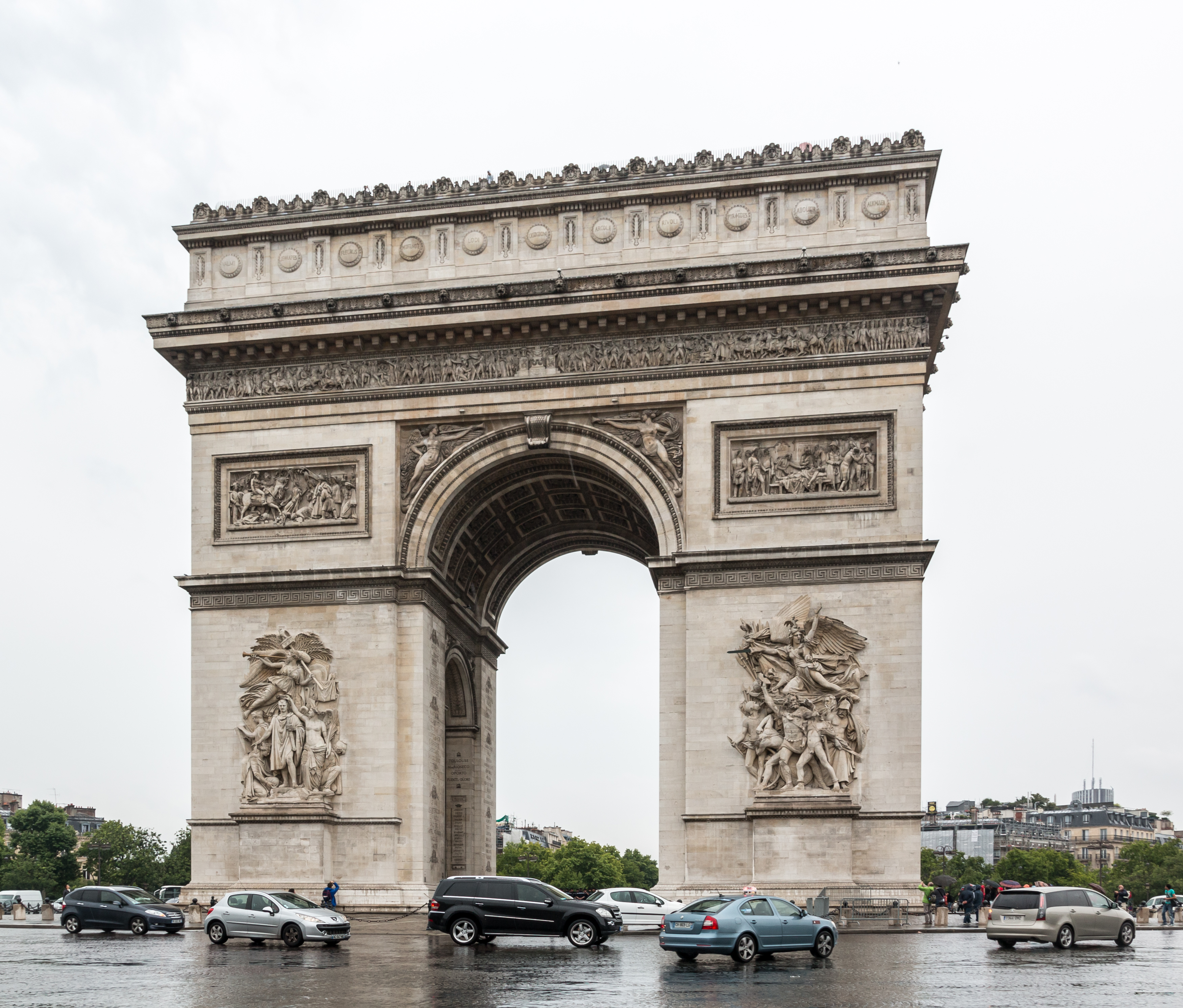 Arc de Triomphe de l'Étoile, Paris, France .